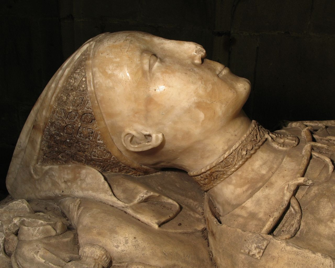 (St Mary and St Barlok)Monument to Sir Ralph Fitzherbert,d.1483,and his wife:detail of wife in church in Norbury, Derbyshire